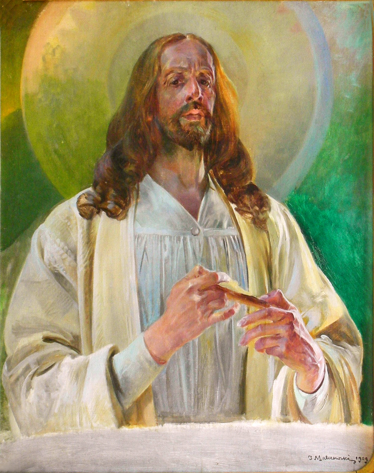 Christ in Emmaus.